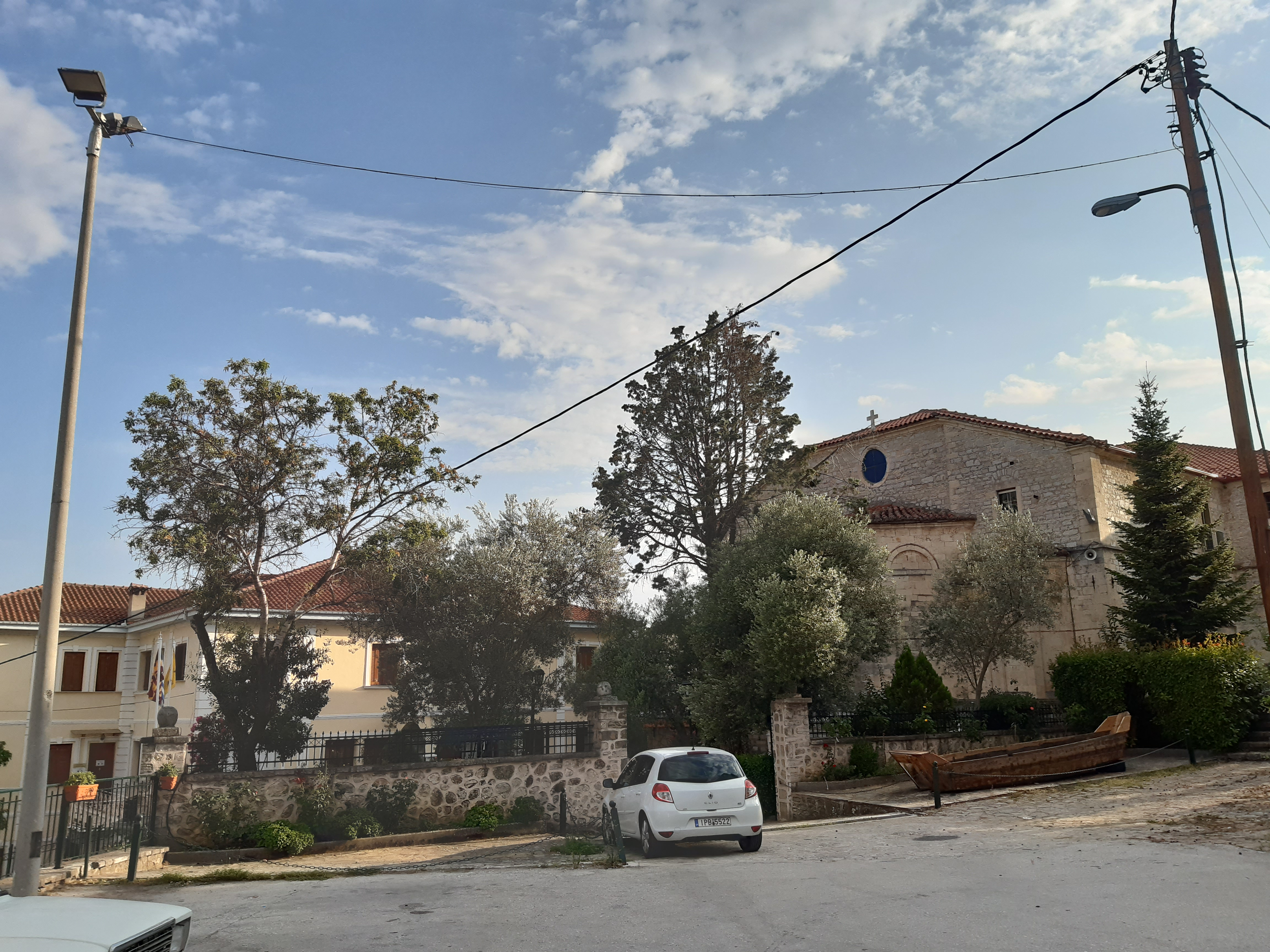 Assumption of Mary Church, Kastoria